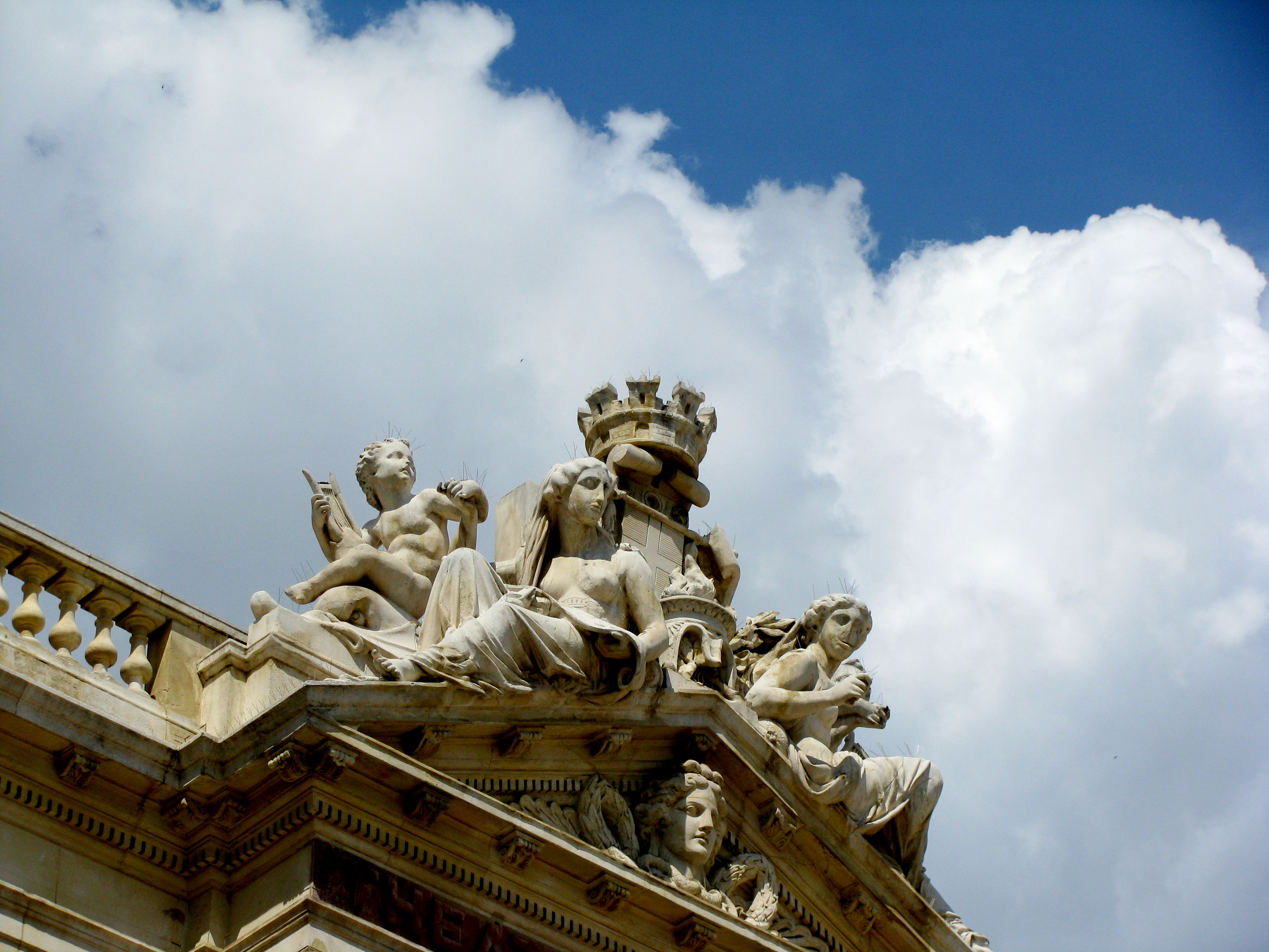 A close up picture of the intricate artwork on top of the Toulon Opera building.